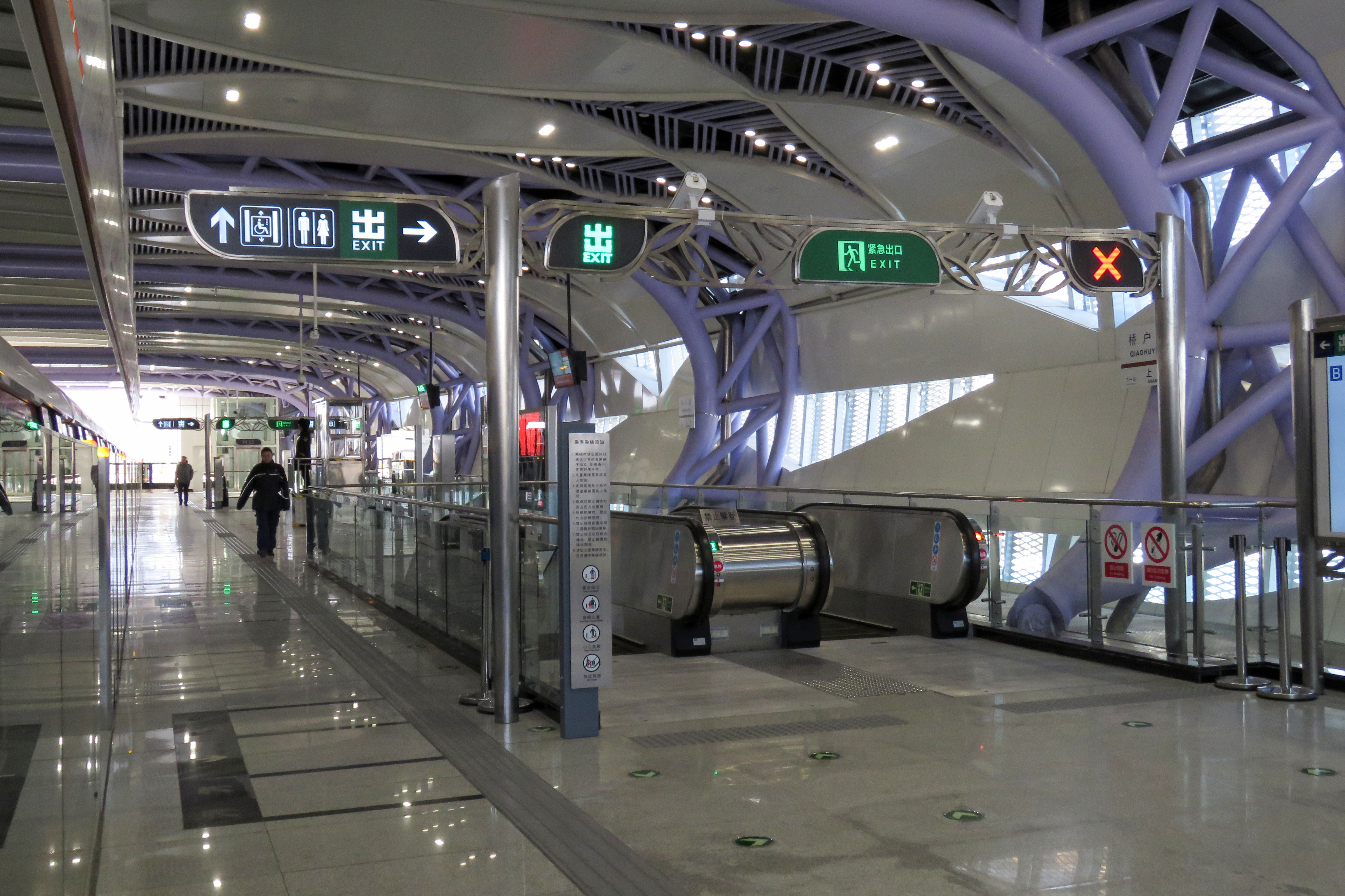 Lavender like SML10. Narrowly another "Shilong Road Station", and another "Caogezhuang"...